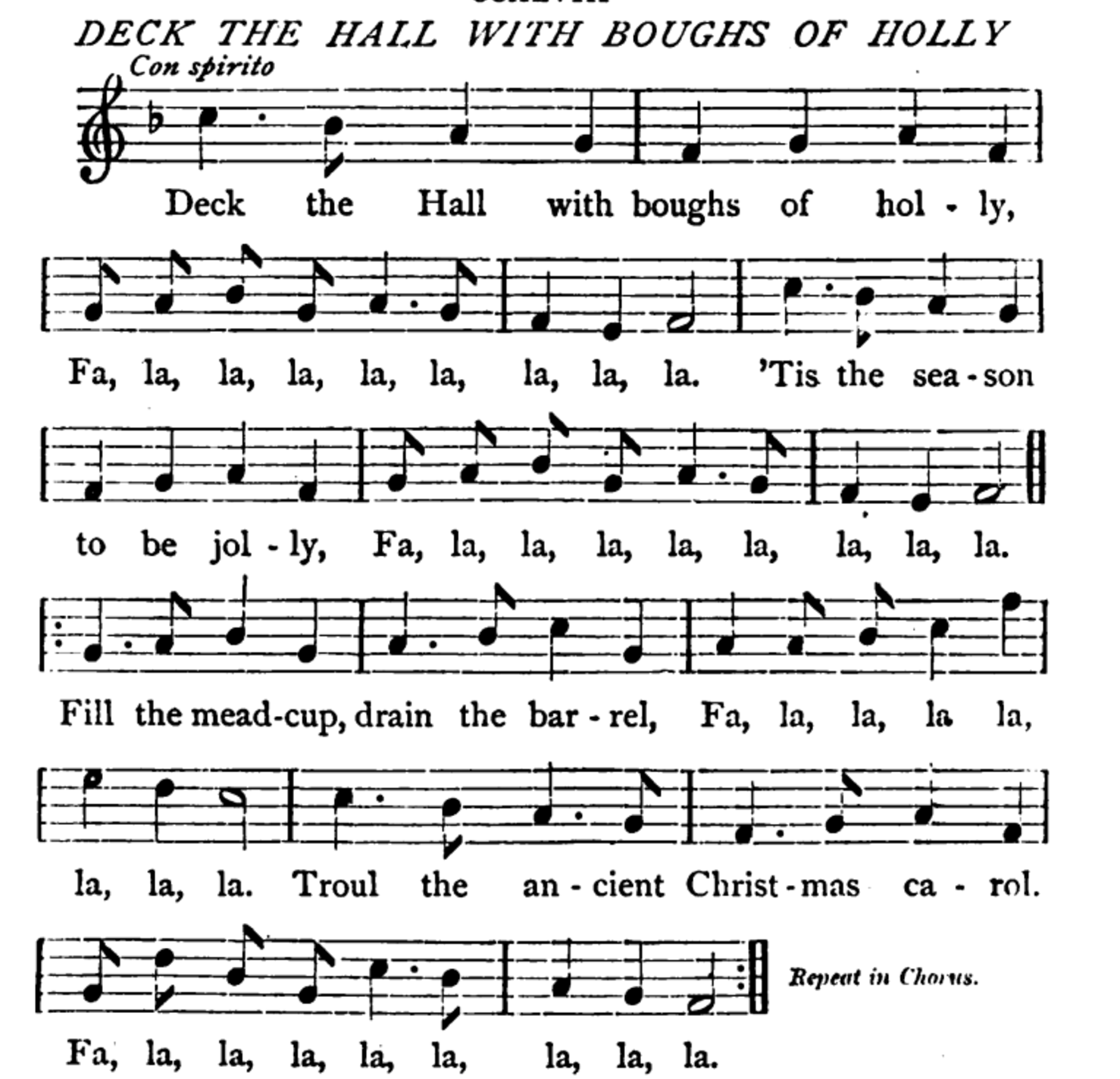 Melody of "Deck the Hall", from John Hullah, The Song Book